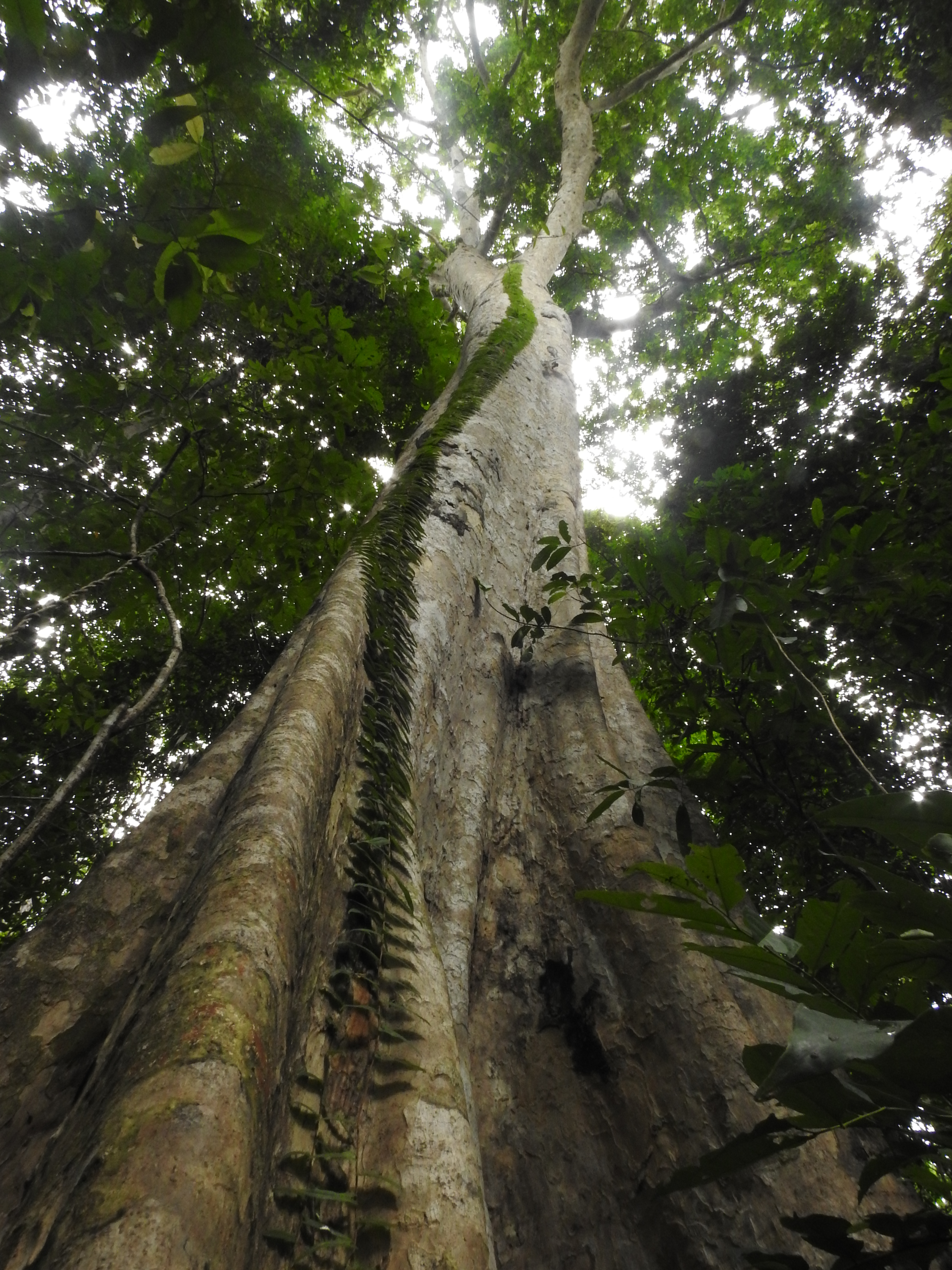 Creeper on bark of emergent Dracontomelum dao tree in Tangkoko Nature Reserve, Sulawesi